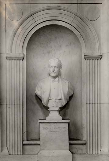 Bust of architect Thomas Hastings of the firm of Carrere and Hastings, New York City. Courtesy of the New York Public Library, the main building of which was designed by Carrere and Hastings.